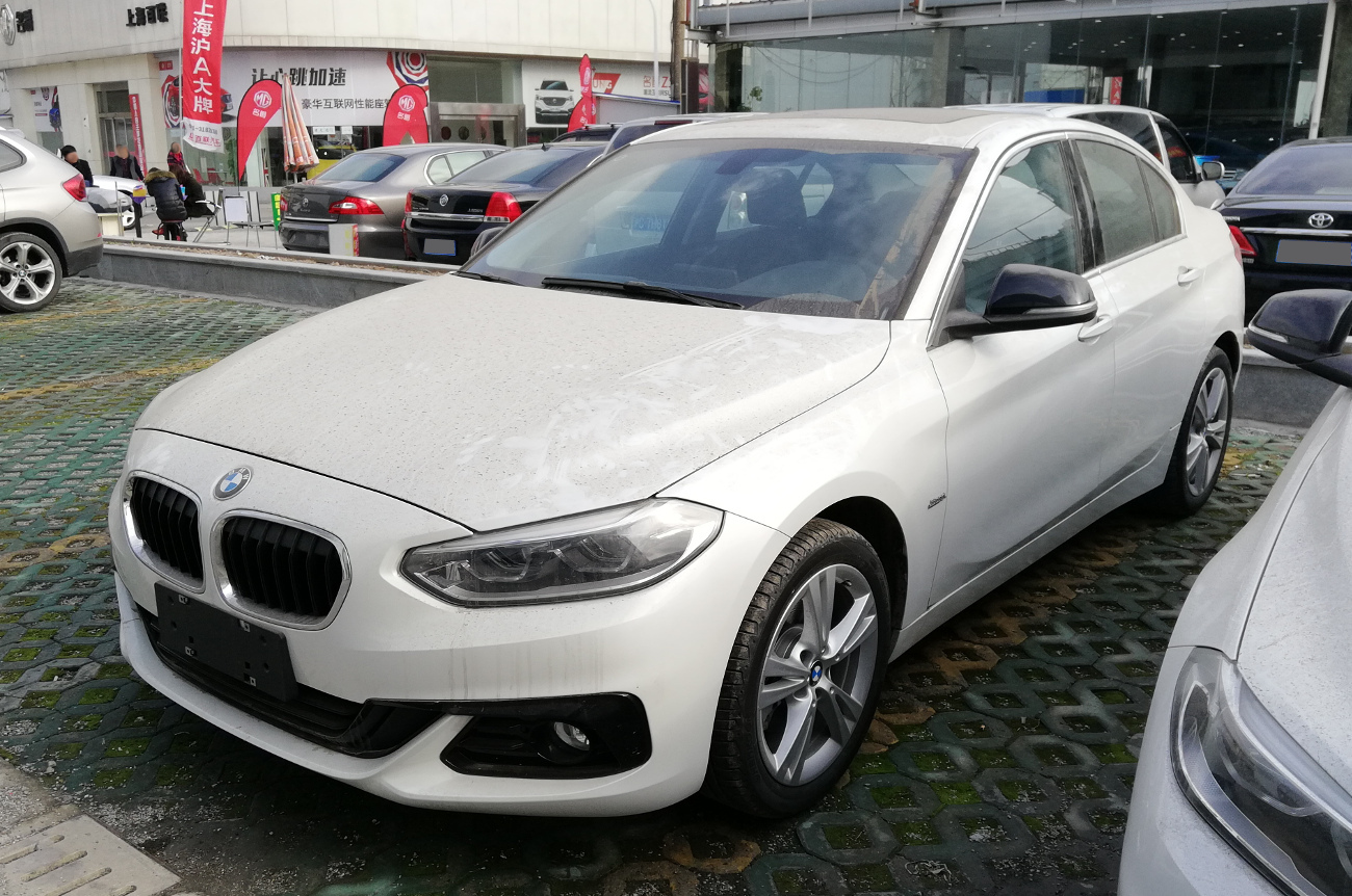 BMW 1-Series F52 photographed in Shanghai, China.